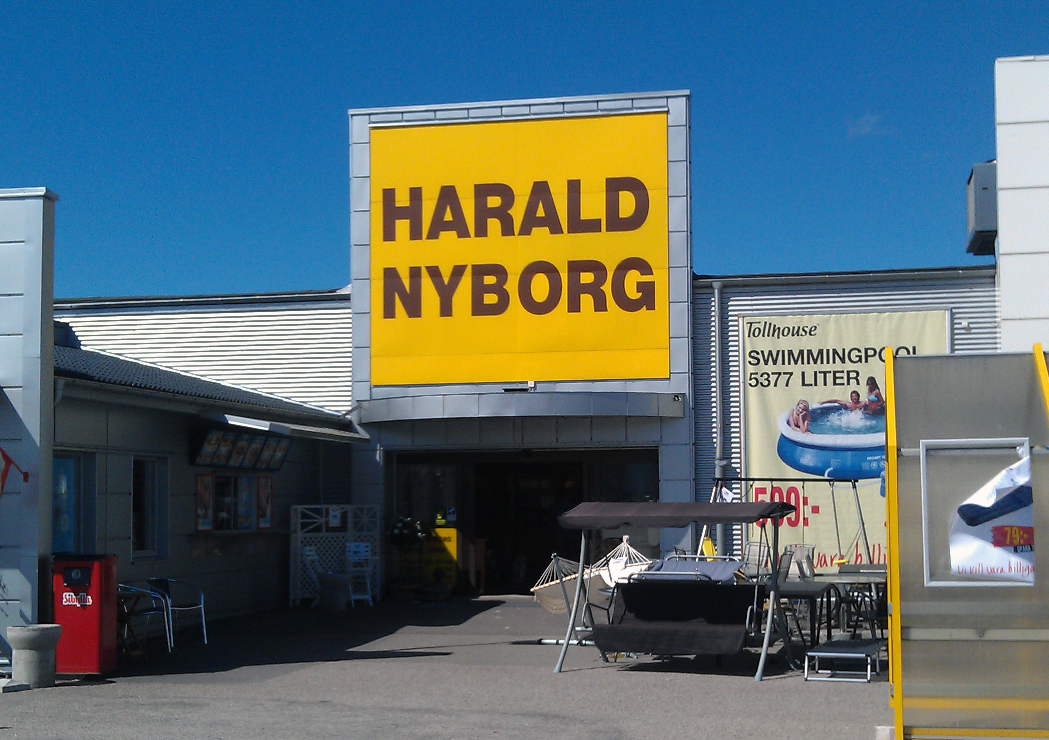 Harald Nyborg in Varberg, Halland, Sweden.